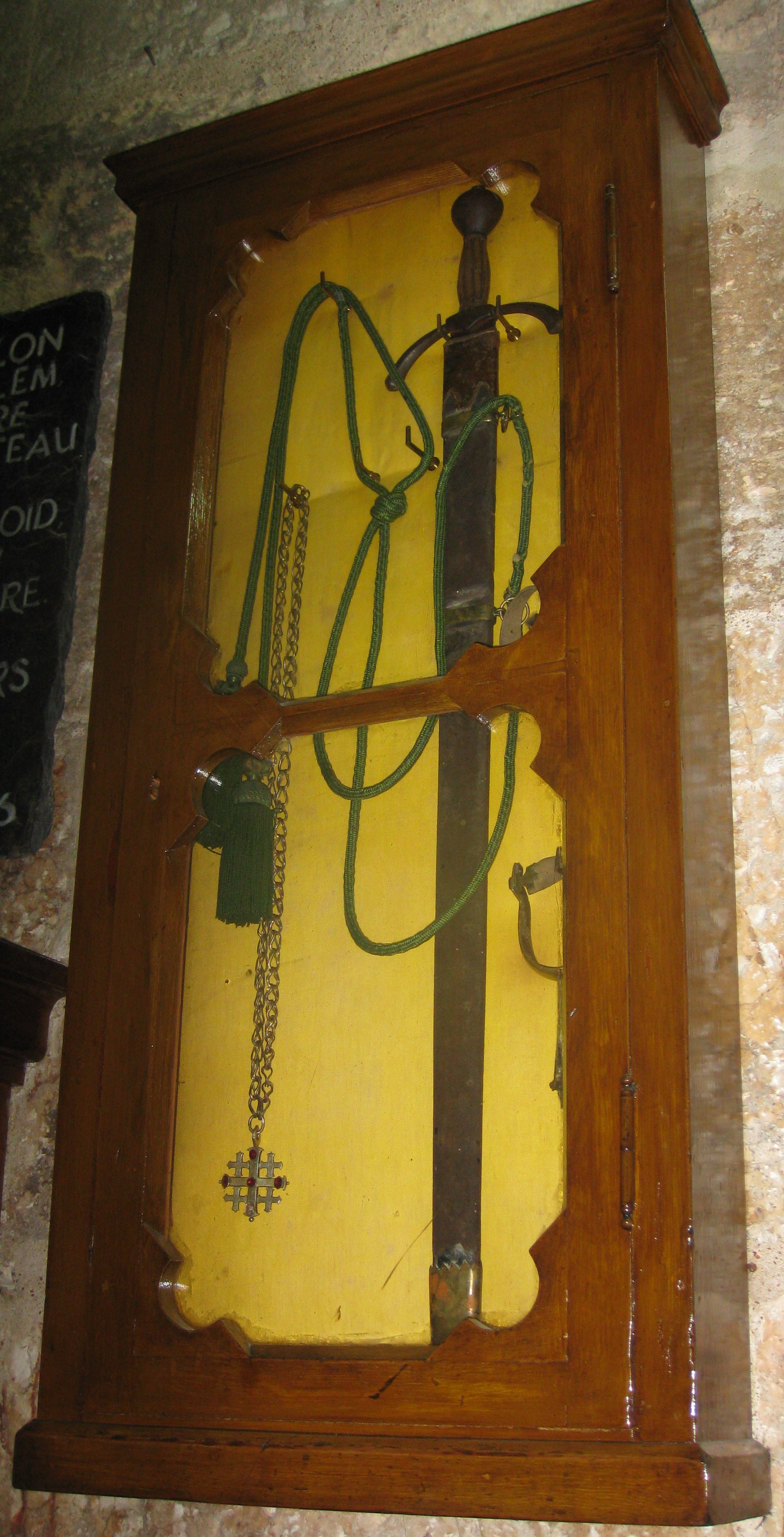 The "sword of Godfrey of Bouillon" on display in the sacristy of the Basilica of the Holy Sepulchre since 1808.[1]